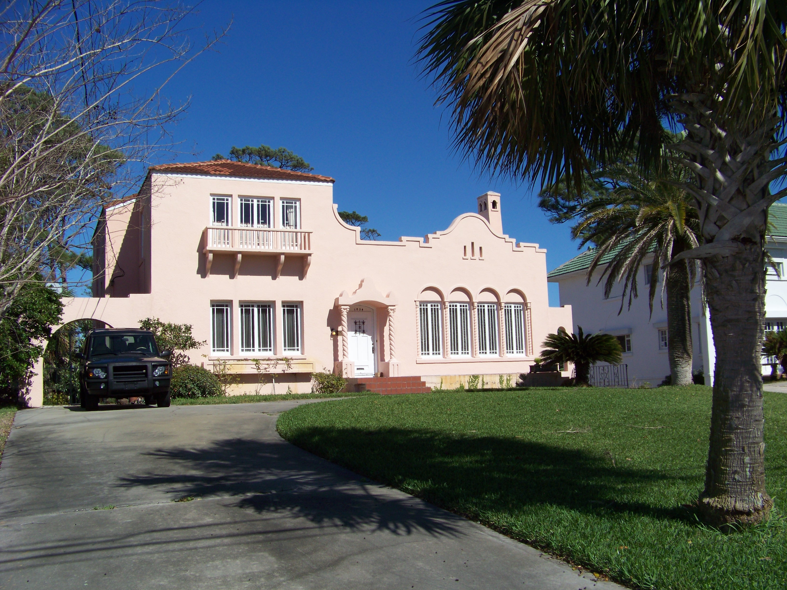 1434 North Halifax, Daytona Beach, FL, part of the El Pino Parque historic district